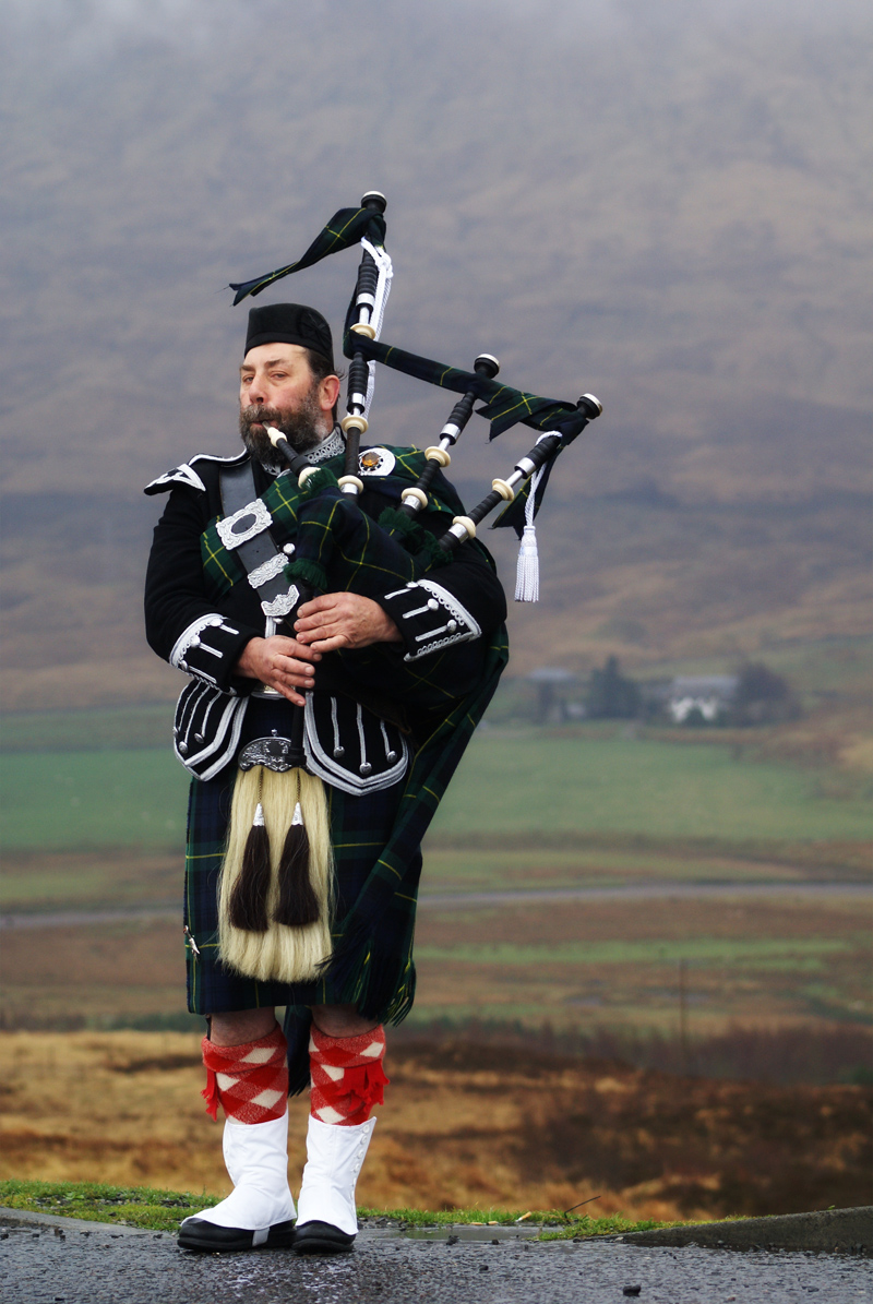 This man was playing the bagpipes at a scenic overlook in the Scottish highlands.